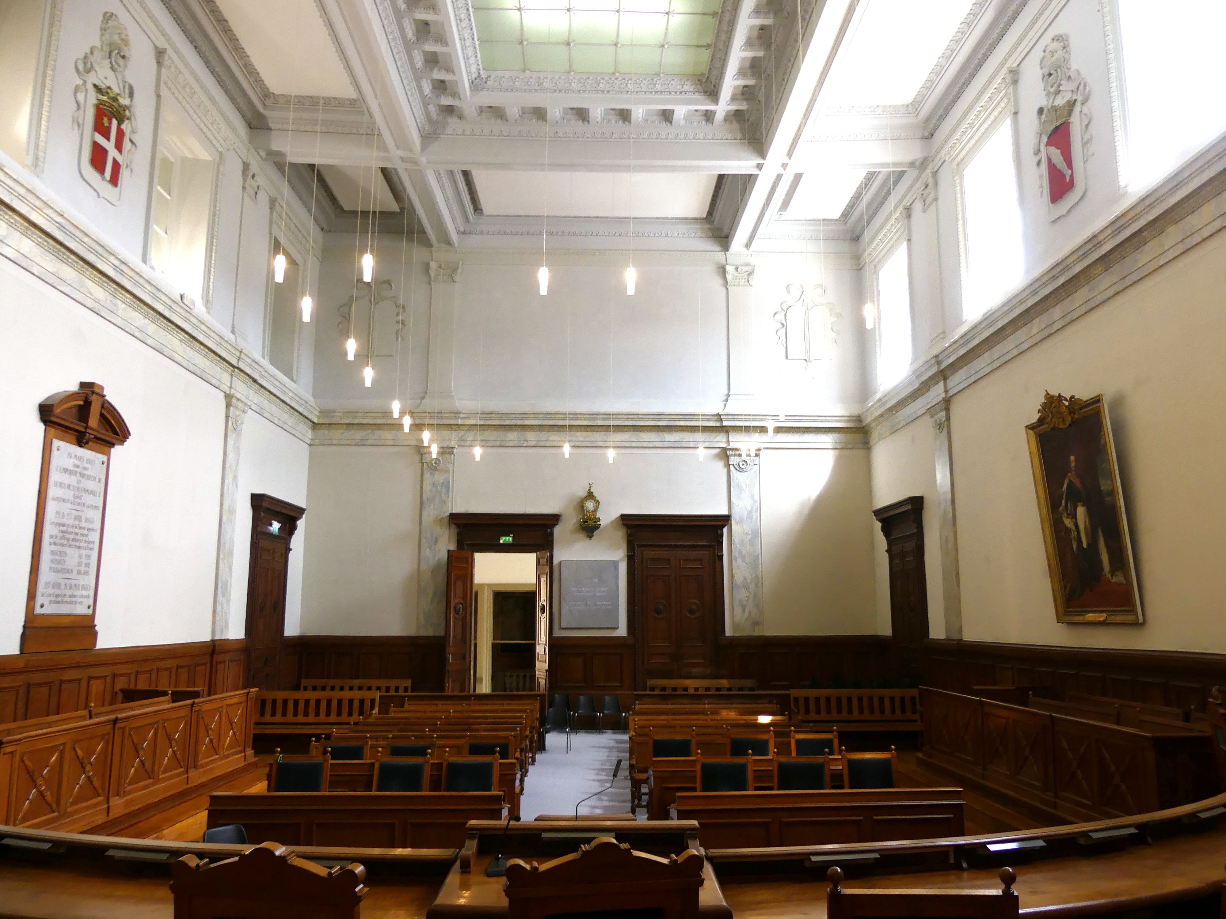 Salle des audiences solennelles room, seen from the judges seats, in the Chambéry courthouse, Savoie, France.